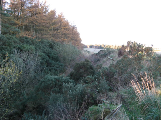 Dismantled Railway, north of Tillynaught The cutting is seen in the left foreground and continues into a small embankment in the middle distance. This was the Portsoy branch of the Banff., Portsoy and Strathisla Railway.